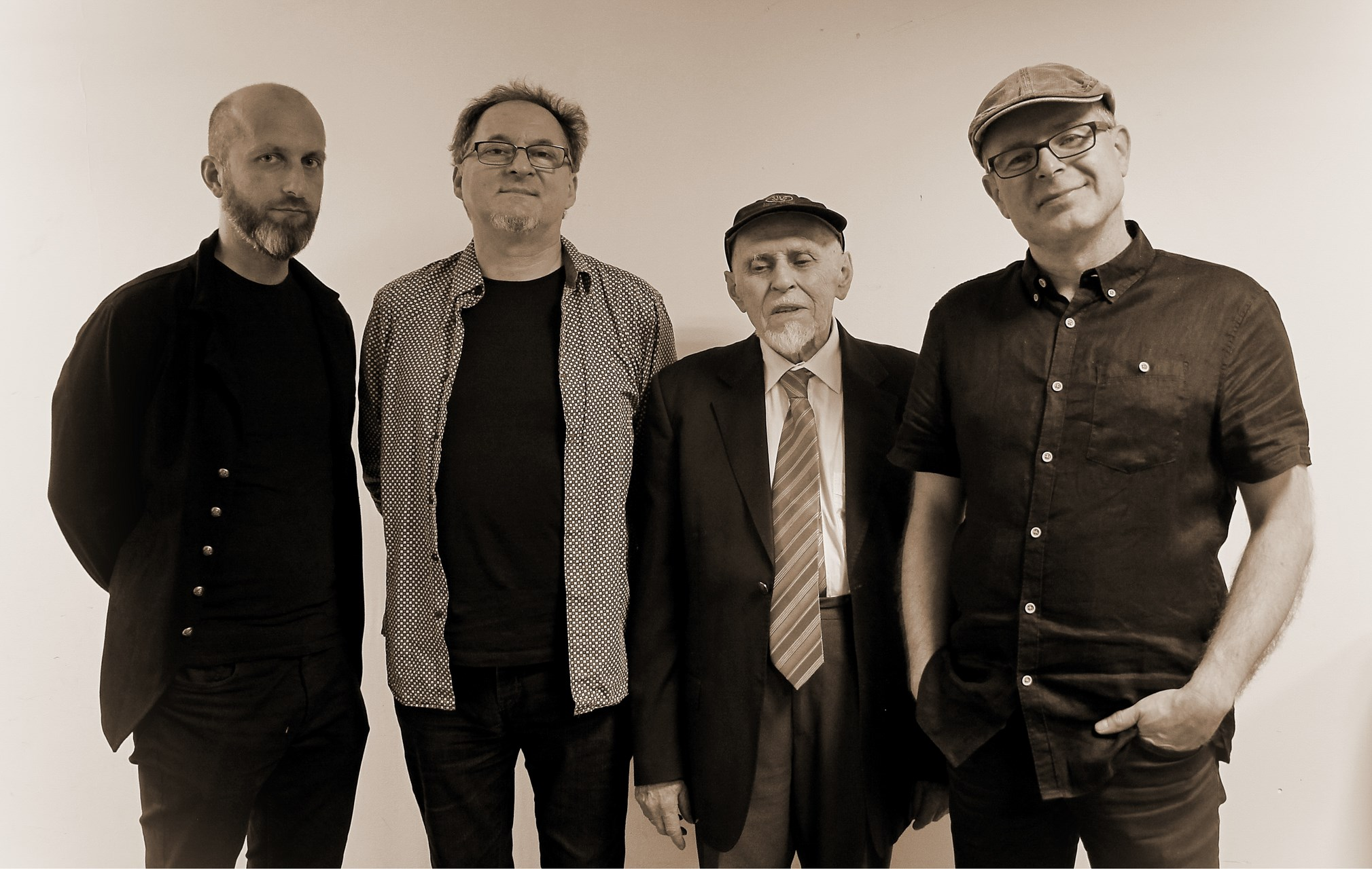 Jan Ptaszyn Wróblewski Quartet 2017 (Andrzej Święs, Wojtek Niedziela, Jan Ptaszyn Wróblewski, Marcin Jahr) by Jarosław Pijarowski